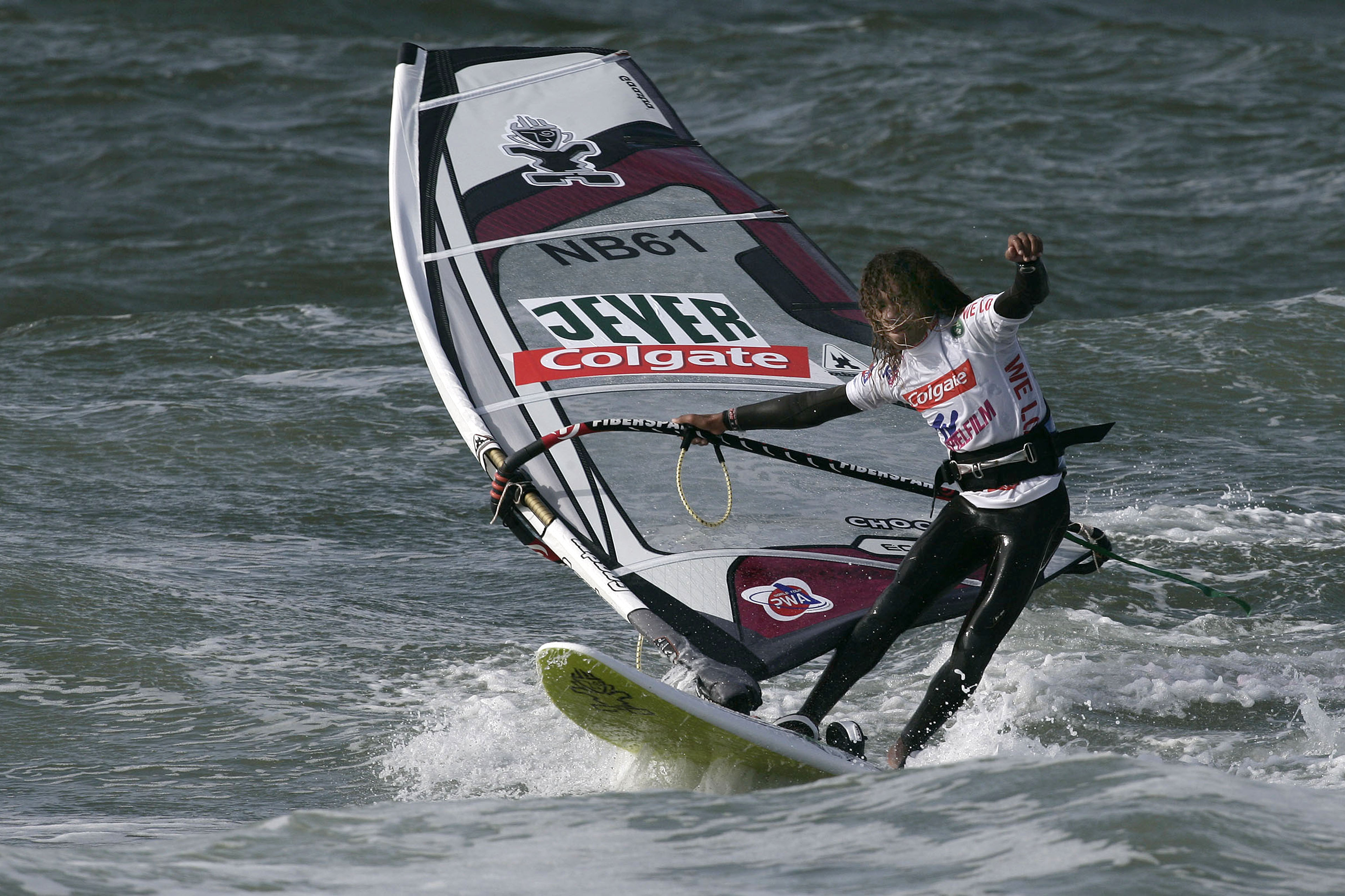 Kiri Thode, freestyle contest, Windsurf World Cup Sylt 2009